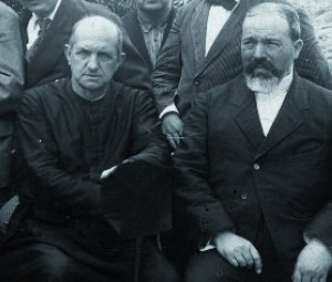 Carlos Ferris Vila y Joaquín Ballester Lloret